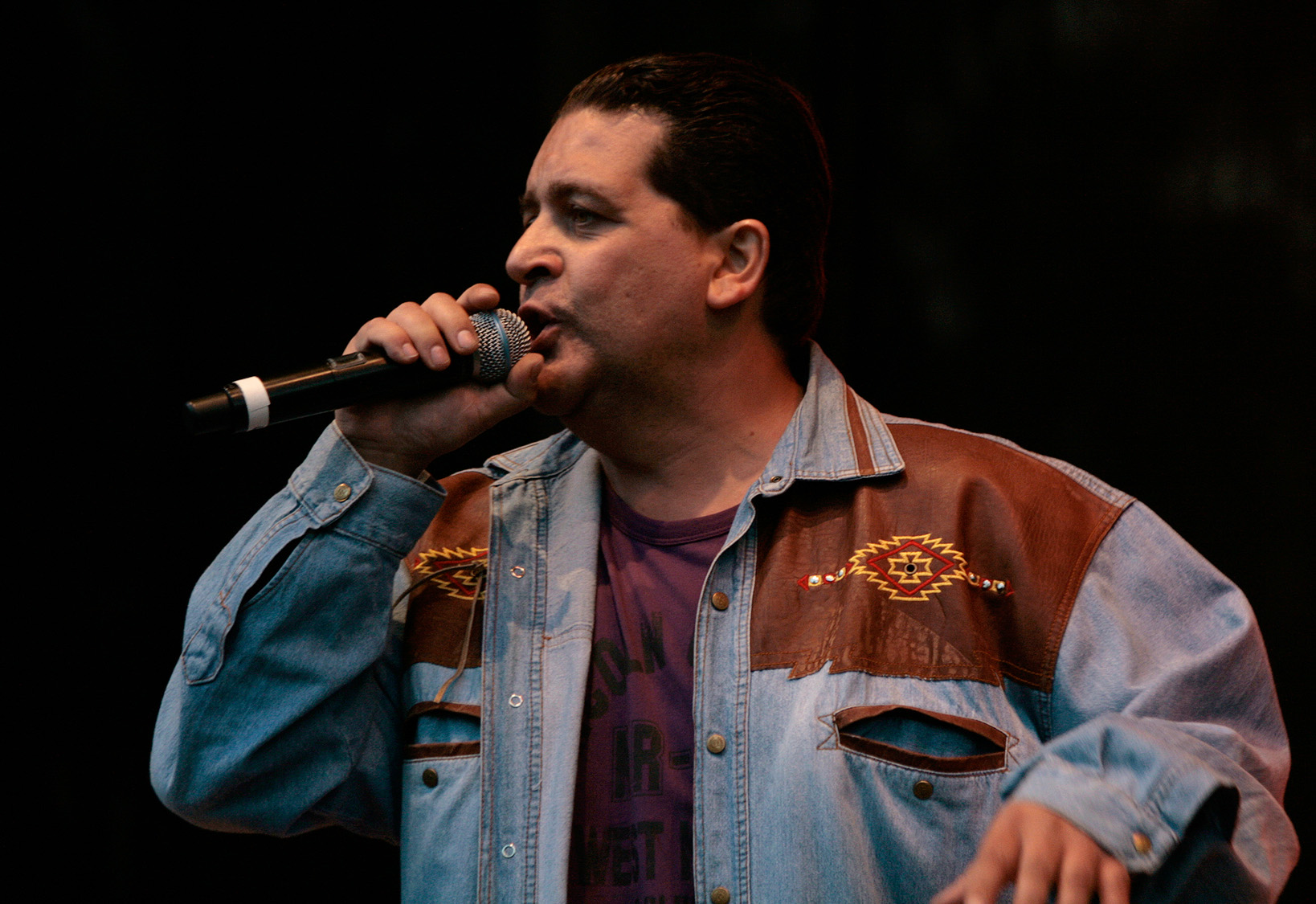 Tony Wegas, in concert with Claudia K.'s Woodstock Project at the Kaiserwiese (Prater, Vienna).